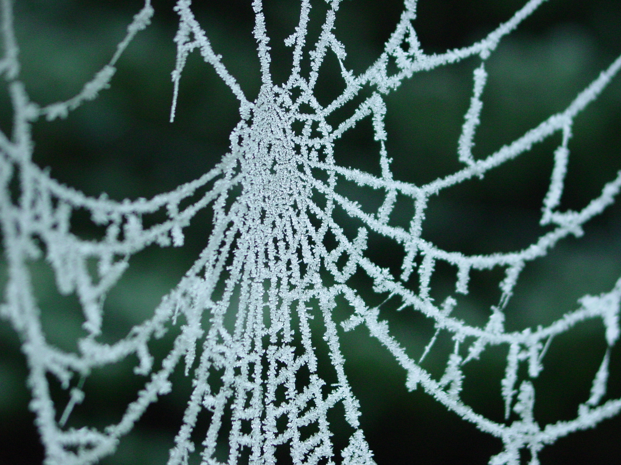 Spiderweb, covered in frost